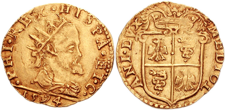 Italia, Ducato di Milano - 1594: Filippo II, re di Spagna. 1556-1598. AV Doppia (27mm, 6.60 g, 3h). Datata 1594. Busto radiato dx; 1594 in esergo. Intorno: .PHI.REX.HISPA.ET.C. Stamma ducale coornato; palme nella corona. Intorno: MEDIOL ANI.DVX Italy, Milan. Philip II, King of Spain. 1556-1598. AV Doppia (27mm, 6.60 g, 3h). Dated 1594. Radiate, draped, and cuirassed bust right, seen from behind; 1594 in exergue. Around .PHI.REX.HISPA.ET.C. Crowned ducal coat-of arms; palms in crown. Around MEDIOL ANI.DVX CNI V 209; Crippa 4R; Friedberg 716.